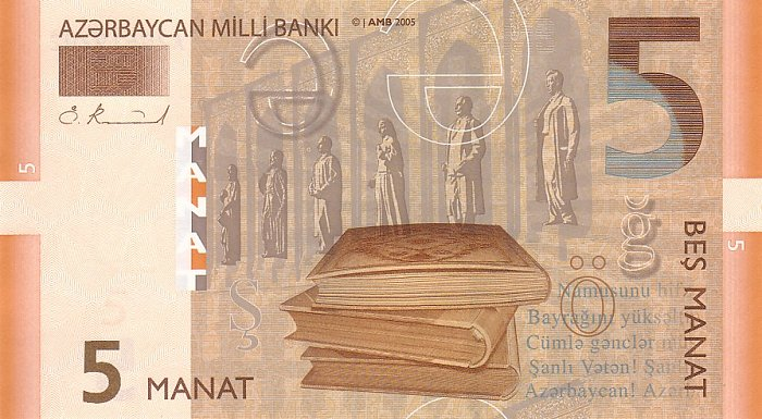 obverse of 5 AZN